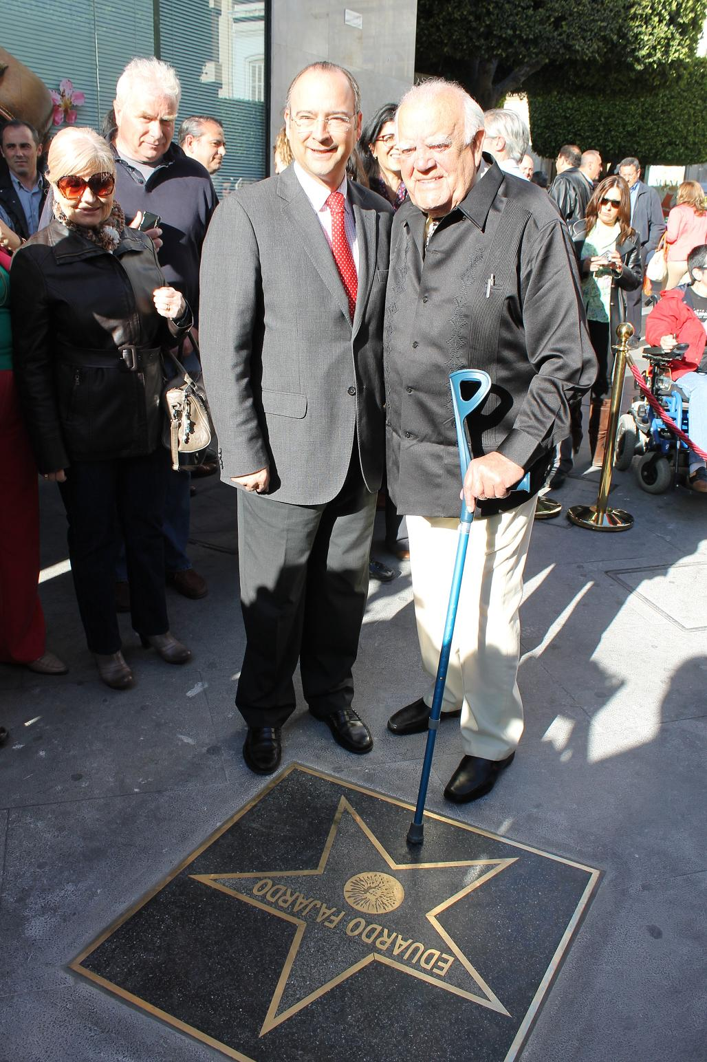 Eduardo Fajardo at Almeria Walk of Fame on 2012